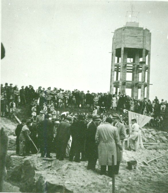 טקס הנחת אבן הפינה בבית הספר שברחוב ויצמן באדיבות אוסף התצלומים של ארכיון בית ראשונים"- מוזיאון לתולדות הרצליה